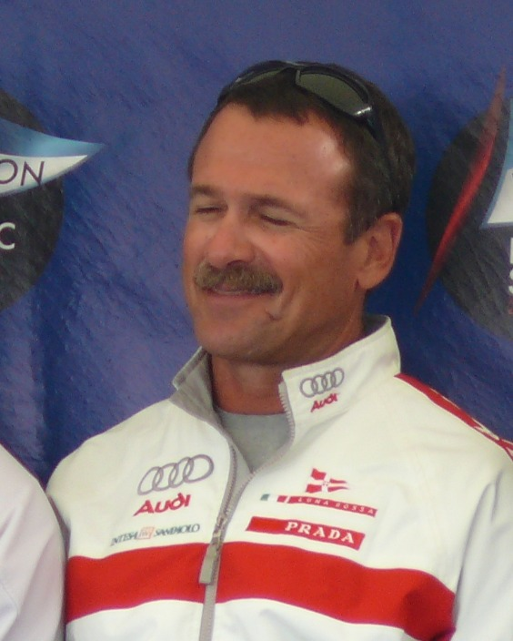 Peter Holmberg - Louis Vuitton Pacific Series 2009 Final Press Conference Auckland, New Zealand